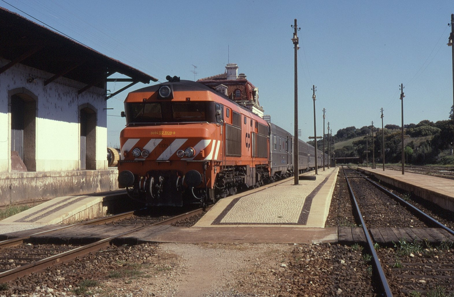 1939 is seen heading train IR871 08:35 Barreiro to Faro during a station stop at Funcheira on 10 April 1999.